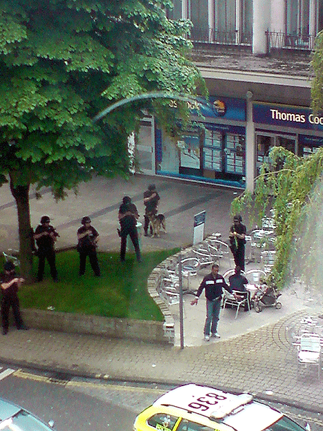 A man being arrested in Plymouth City Centre following the Princesshay Bombing.